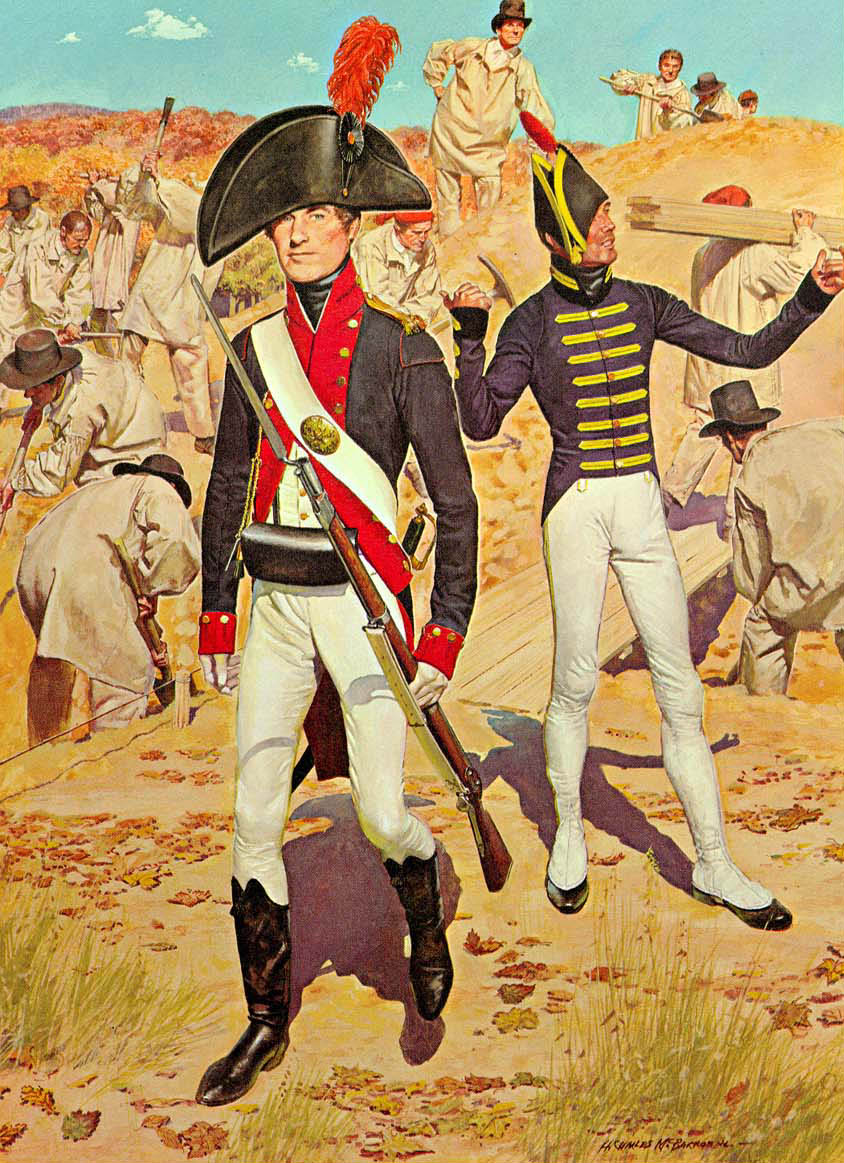 Before 1805, the Army had few trained technicians, particularly in the field of engineering, and had depended largely upon foreign experts. To remedy this situation, the engineers were separated from the artillery and the Corps of Engineers, consisting of 10 artillery and engineer cadets and 7 engineer officers, was created in 1802. The Corps was to be stationed at West Point and was to constitute the Military Academy. In 1803, 19 enlisted men were added to the Corps,"to aid in making experiments and for other purposes." In the left foreground of the scene showing construction work near West Point in 1805 is an artillery cadet in the mixture of conmissioned and nonconmissioned uniforms prescribed for cadets of artillery. His blue coat is faced and lined with red, and has yellow buttons and wings piped with red-the coat worn by artillery noncoms. On his left shoulder he wears the small epaulette ordered for cadets. His officer's cocked hat bears the black nationalcockade with an eagle button and the red plume of the artillery; with his enlisted man's white linen sunmer overalls, he is wearing officer's half-boots. On the right is an engineer private in the blue coat with black velvet collar and cuffs and false yellow buttonholes on the collar, cuffs, and breast adopted for the enlisted men of that corps in 1803. He is wearing white winter overalls and an artilleryman's cocked hat with a red plume since the cap or shako could not be procured until a year later. In the background enlisted infantrymen are working clad in the "coarse linen frock and fatigue trousers" allowed by Congress as a part of the annual clothing allowance in March 1802. For protection from the weather, old issue hats, bandana, or anything else that took the wearer's fancy was used as a headdress.